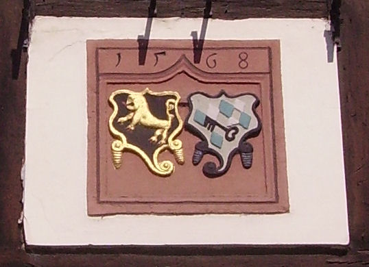 view of Mutterstadt, Germany